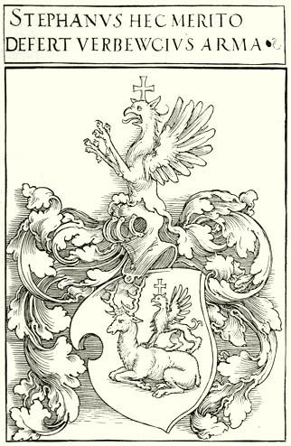 coat of arms of István Werbőczy, a Hungarian jurist